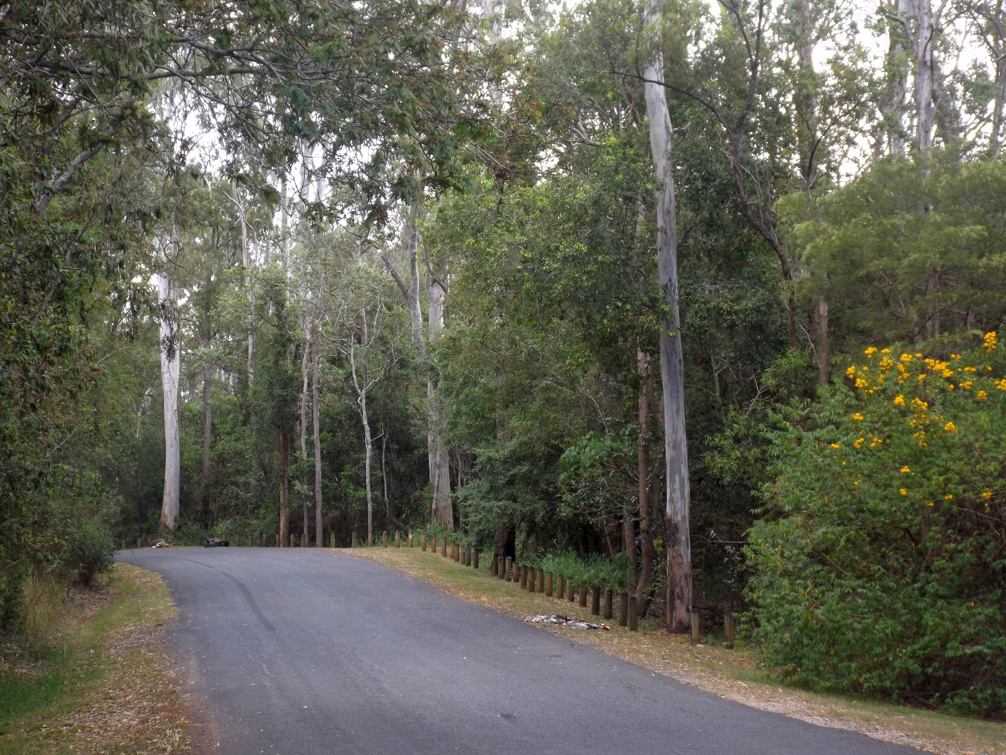 Photo of Murrays Road at Tanah Merah, City of Logan, Queensland, Australia. Murrays Environmental Reserve is one either side of the road.